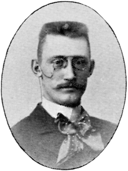 Image scanned from the book "Svenskt Porträttgalleri XX - Arkitekter, Bildhuggare, Målare m.fl. " ("Swedish Portrait Gallery XX - Architects, Sculptors, Painters, ") published 1901